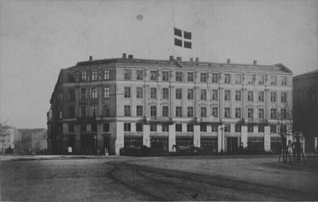 Hotel Kongen af Danmark